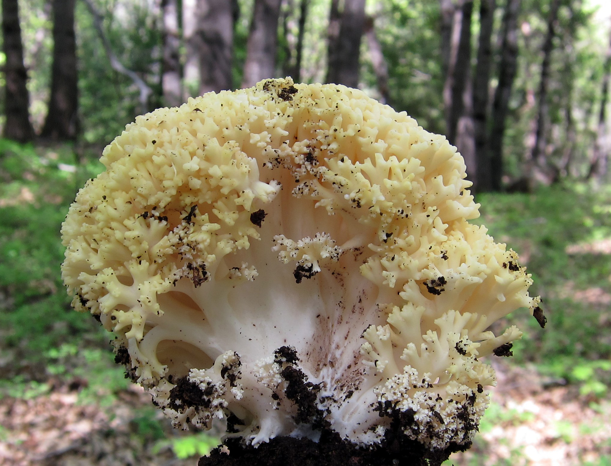 A fruit body of the coral fungus Ramaria rasilispora Marr & D.E. Stuntz. Found in Dunsmuir, California, USA.